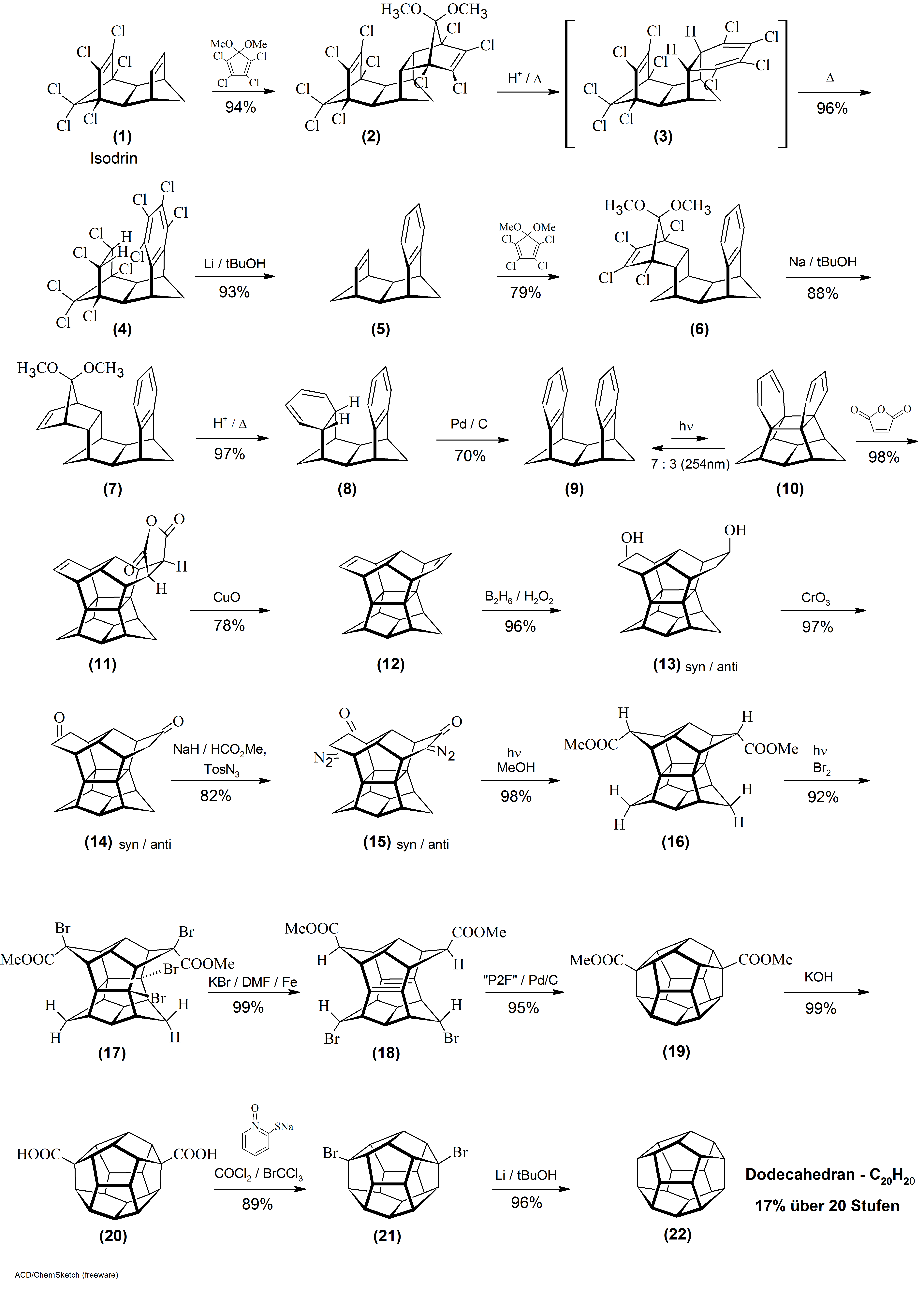 Optimized Pagodane Route to Dodecahedrane, German Version